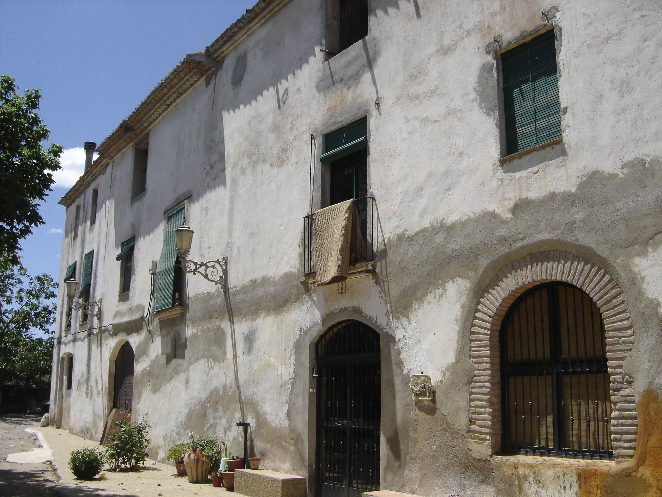 Mas de Pastor at El Rourell.